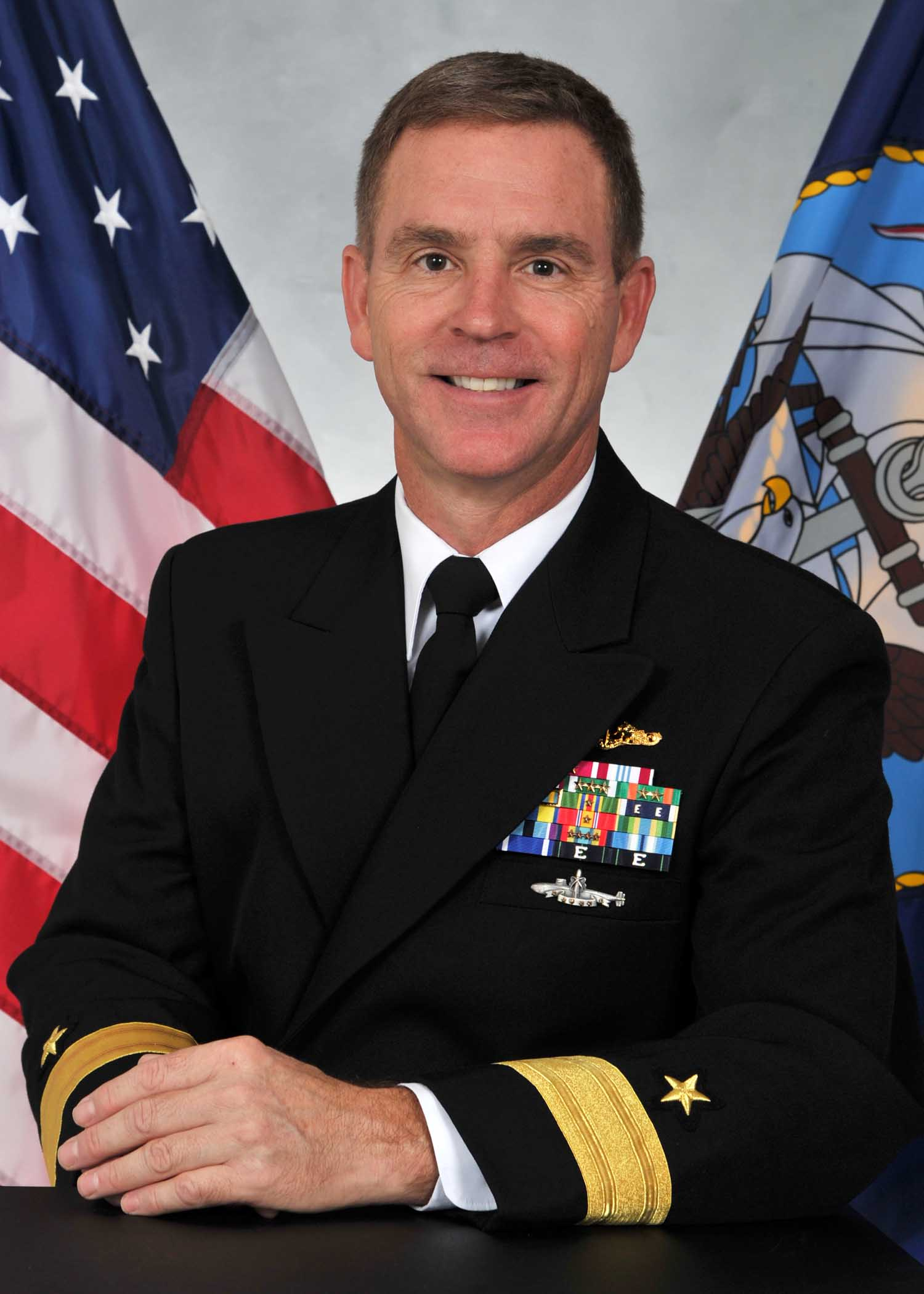 Rear Adm. Randy B. Crites